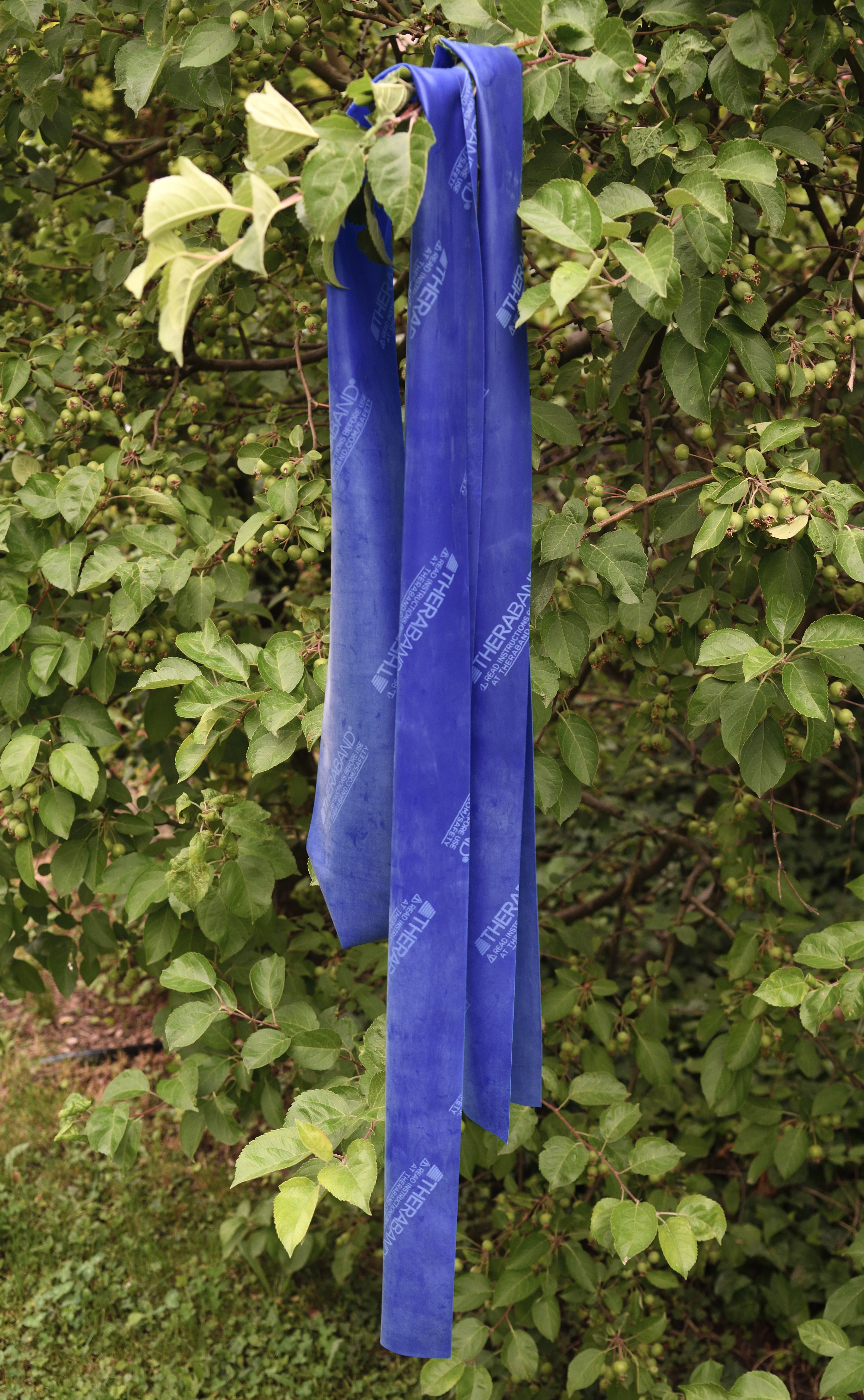 3 meters of blue TheraBand™